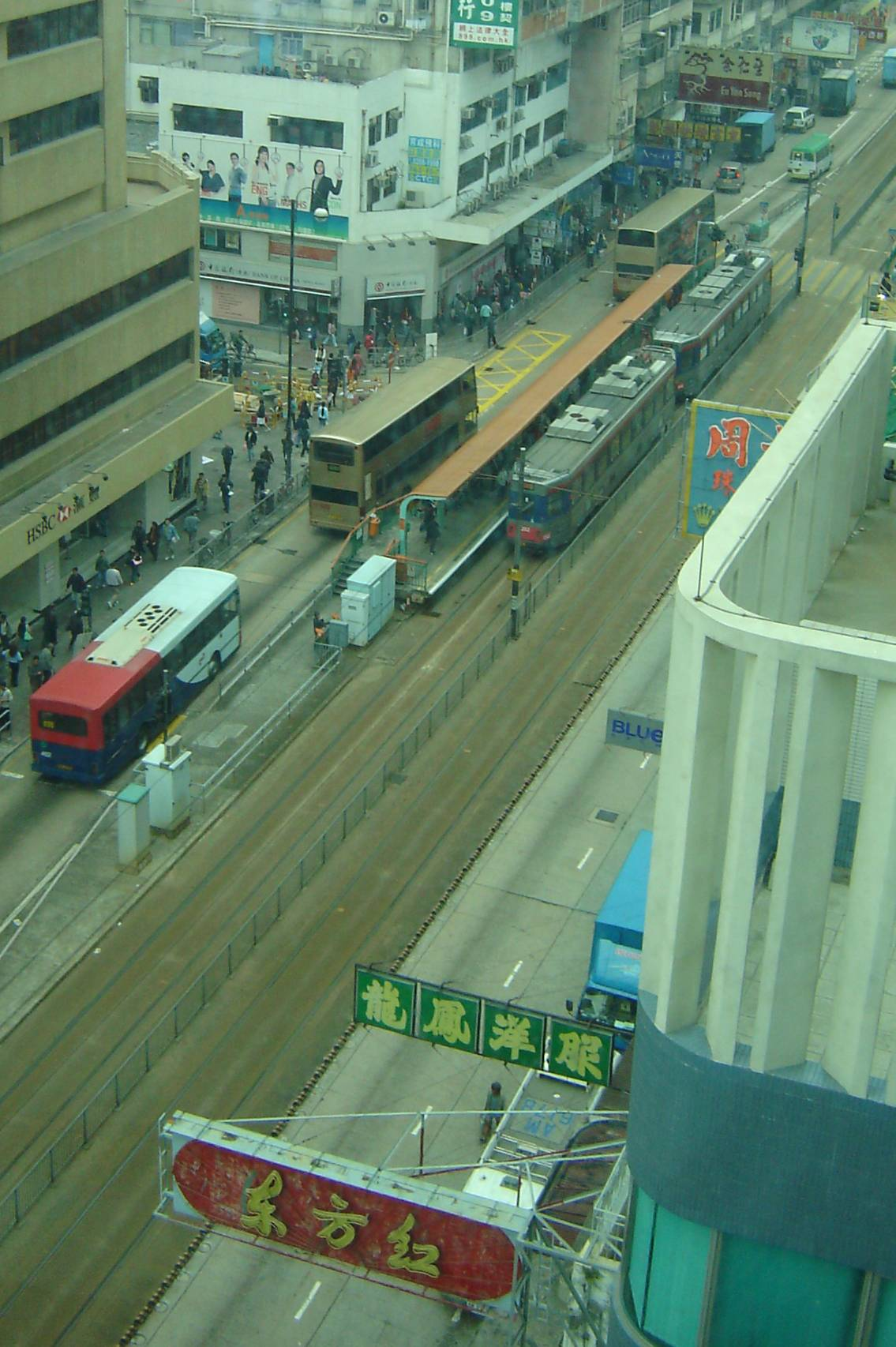 Yuen Long Hong Lok Road station taken from above